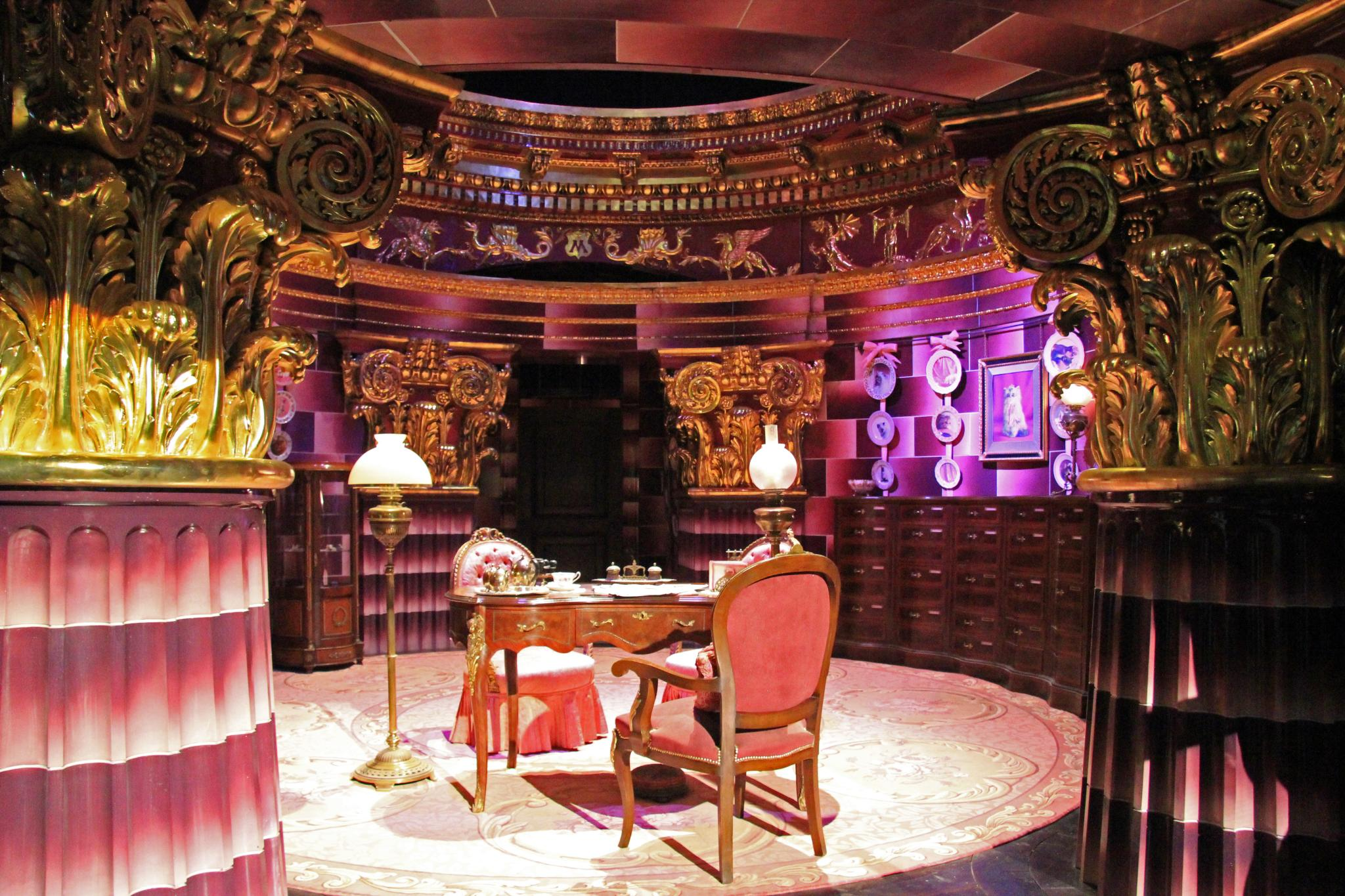 Warner Bros. Studio Tour London: The Making of Harry Potter.